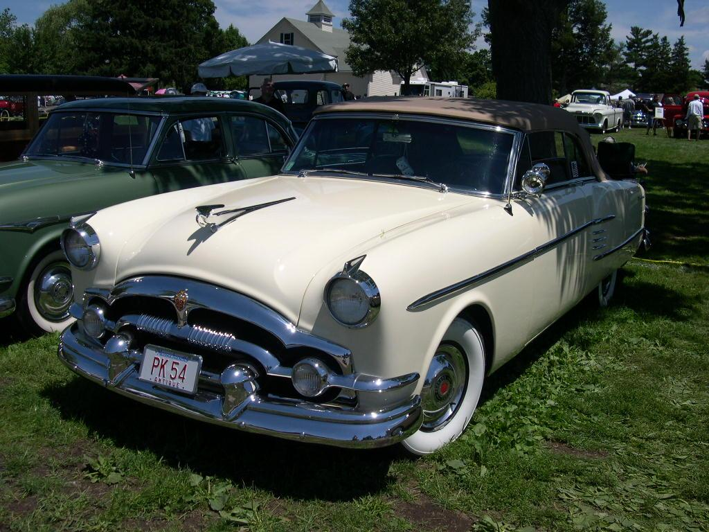 1954 Packard Pacific Source: Photographed at the Bay State Antique Automobile Club's July 10, 2005 show at the Endicott Estate in Dedham, MA by User:Sfoskett